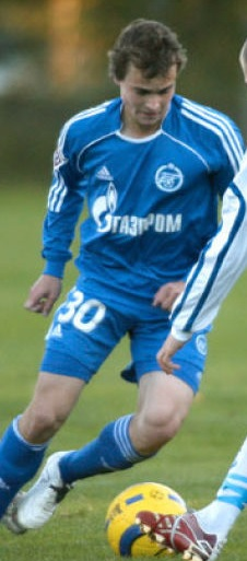 Pavel Komolov in action for FC Zenit St. Petersburg Reserves